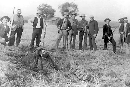 Photograph of the wounded outlaw John Sontag following the Battle of Stone Corral on June 11-12, 1893.